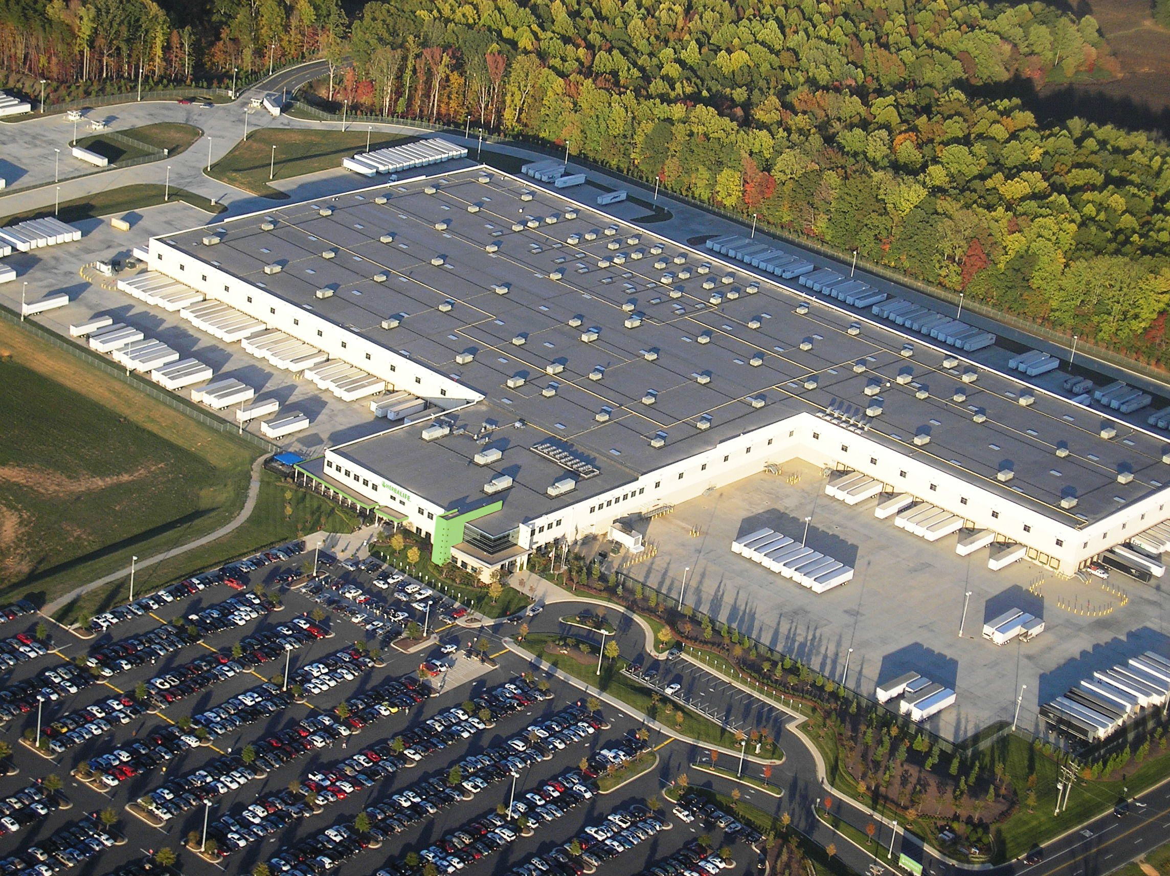 This is an aerial image of our HIM facility. Here’s a fun piece of information on it: Our flagship facility in Winston-Salem, NC is over 800,000 square feet – enough room for 12 soccer games to be played simultaneously.